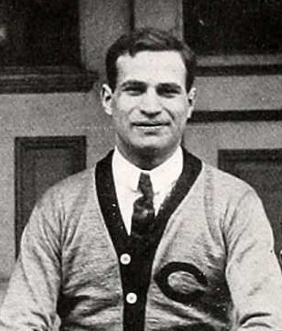 Photograph of Robert Harris, Indiana University basketball coach